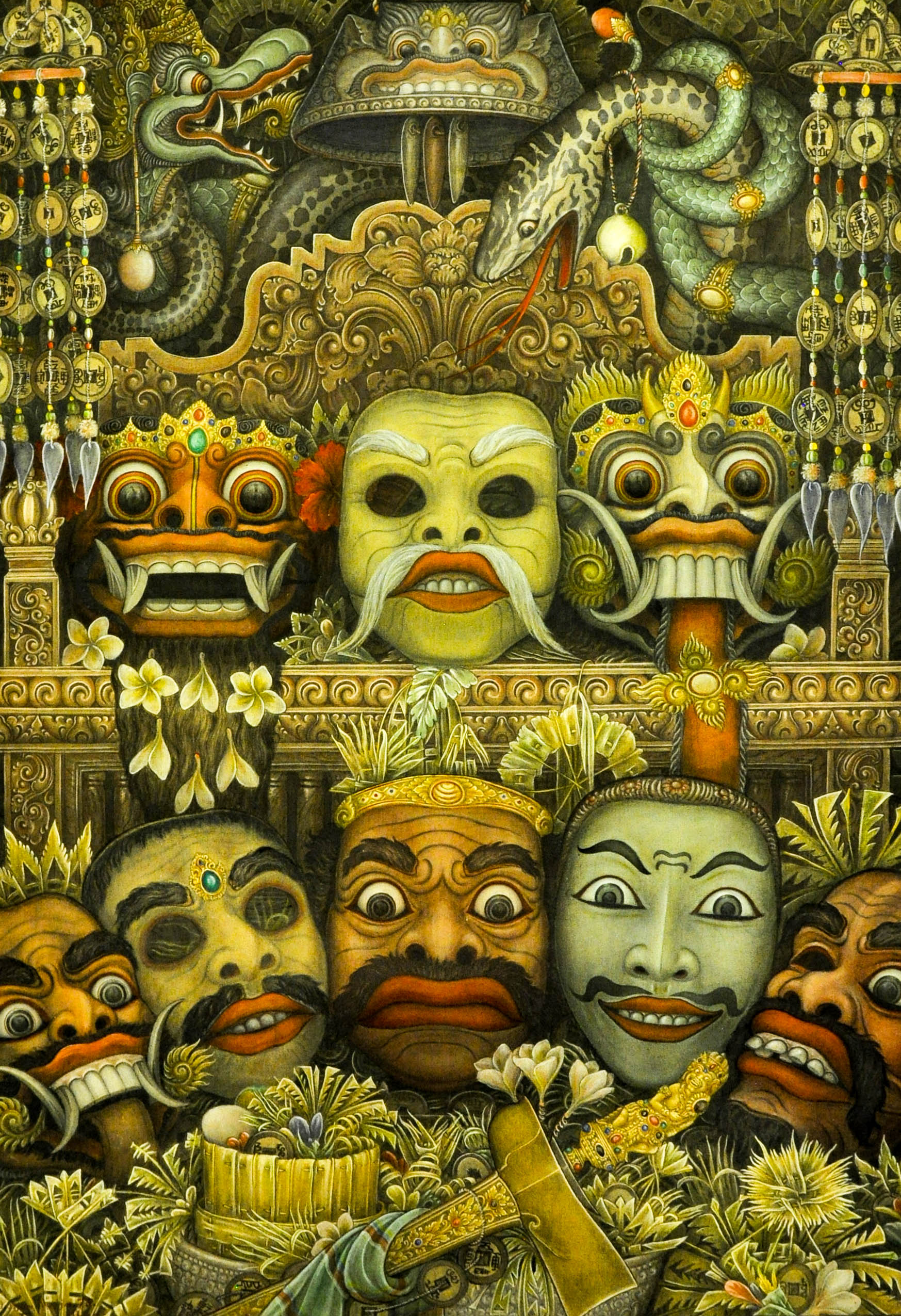 The Puri Lukisan Museum (Indonesian: Museum Puri Lukisan) is the oldest art museum in Bali which specialize in modern traditional Balinese paintings and wood carvings. The museum is located in Ubud, Bali, Indonesia. It is home to the finest collection of modern traditional Balinese painting and wood carving on the island, spanning from the pre-Independence war (1930–1945) to the post-Independence war (1945 – present) era. The collection includes important examples of all of the artistic styles in Bali including the Sanur, Batuan, Ubud, Young Artist and Keliki schools